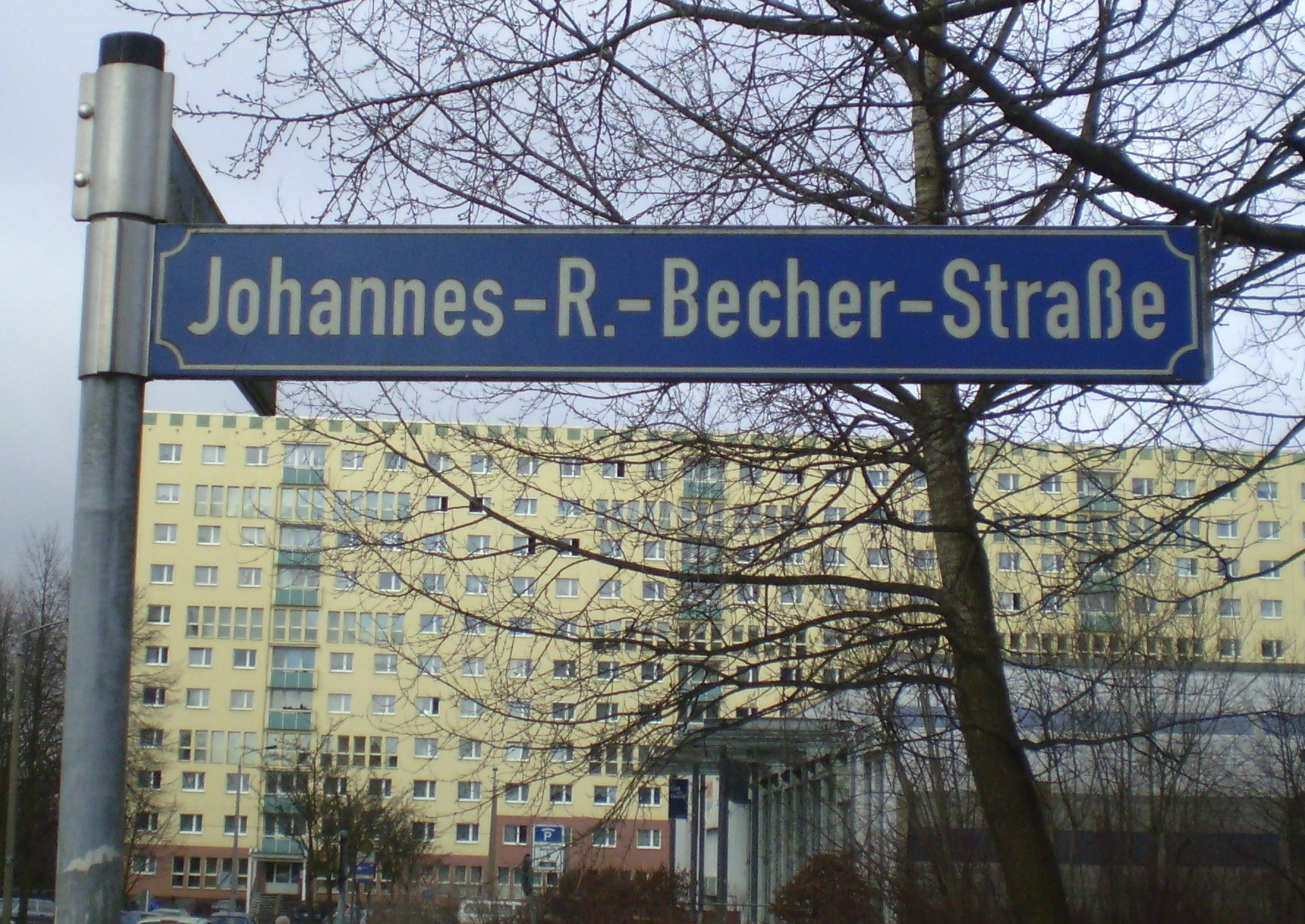 street sign, Leipzig, Germany